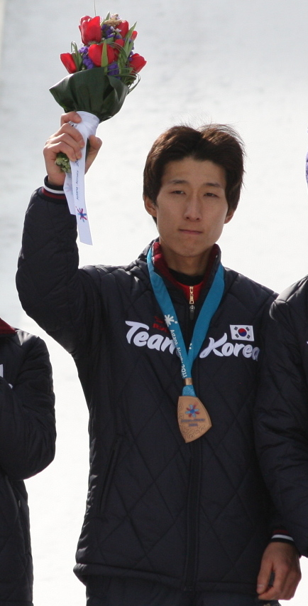 South Korean Ski Jumping National Team during 2011 Winter Asian Games.